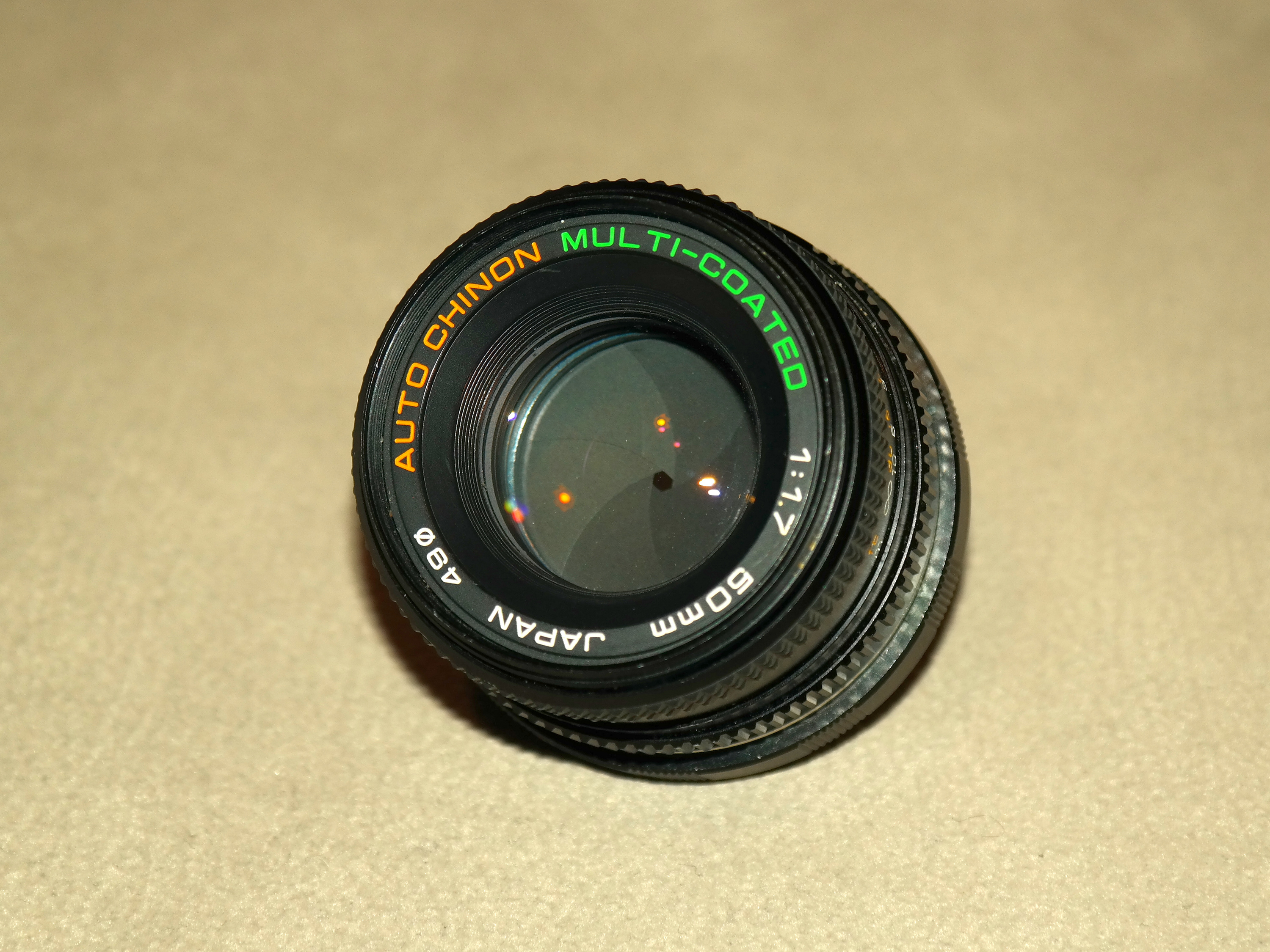 Chinon Auto MC 50mm f/1.7 Lens.